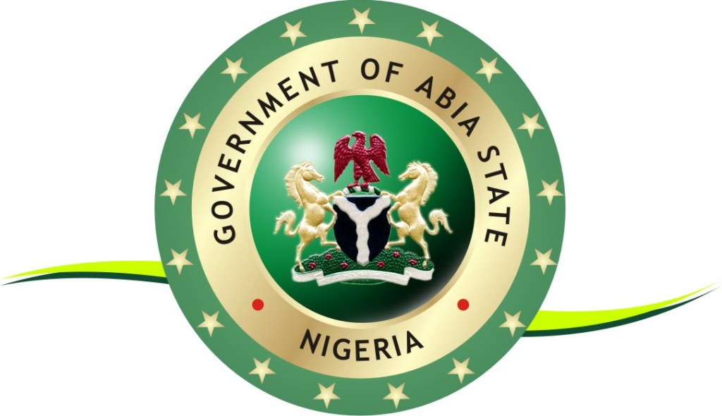 Abia State coat of arms